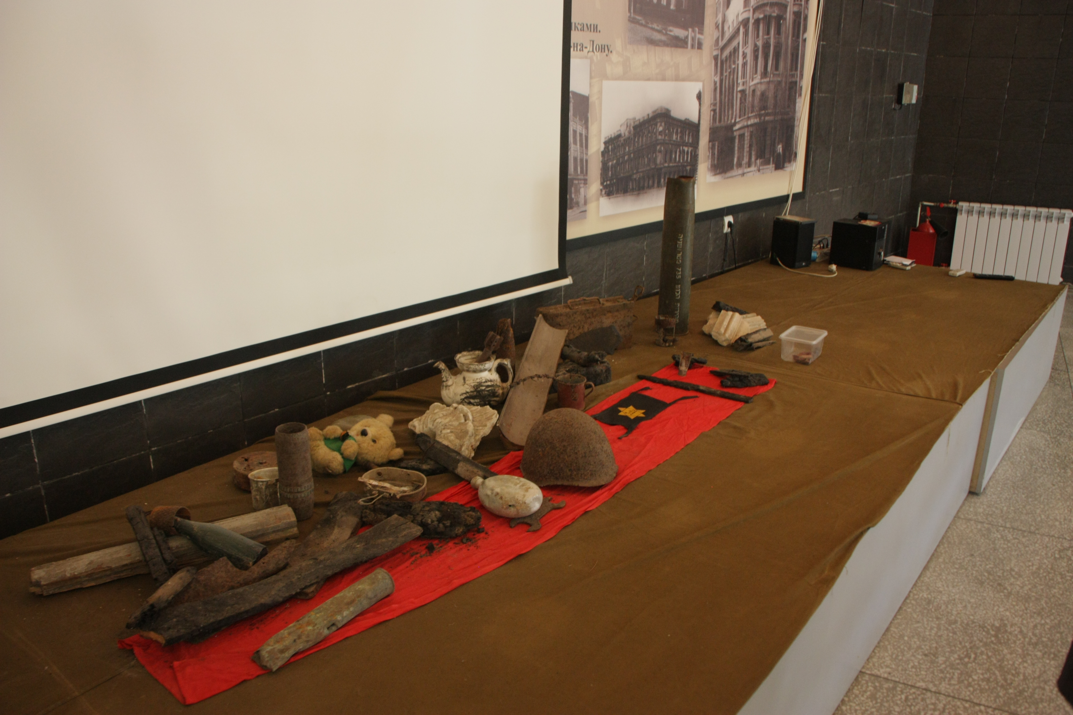 Museum Zmievskaya Balka Memorial Complex